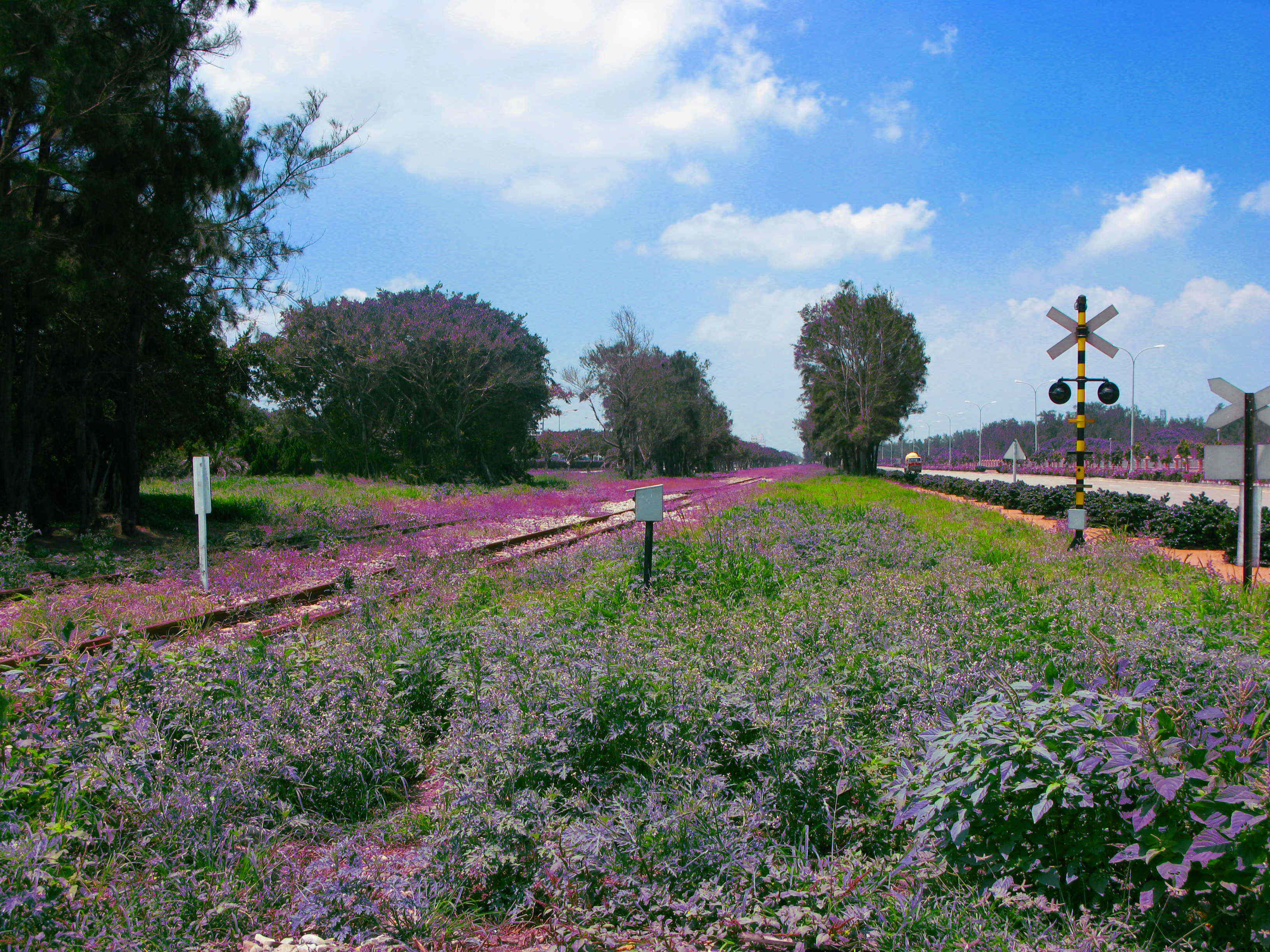 Taiwan Taichung Port Rail transport.